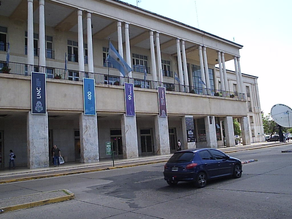 Argentina pavilion, located at the campus of the National University of Cordoba, in Cordoba, Argentina.